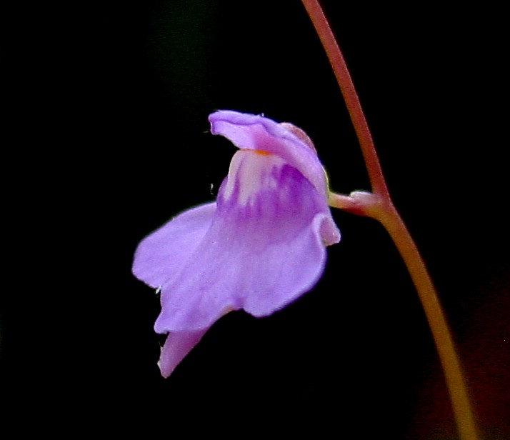 Description:Utricularia amethystina in cultivation (grown by Robert Zeimer) Photo taken by: Noah Elhardt